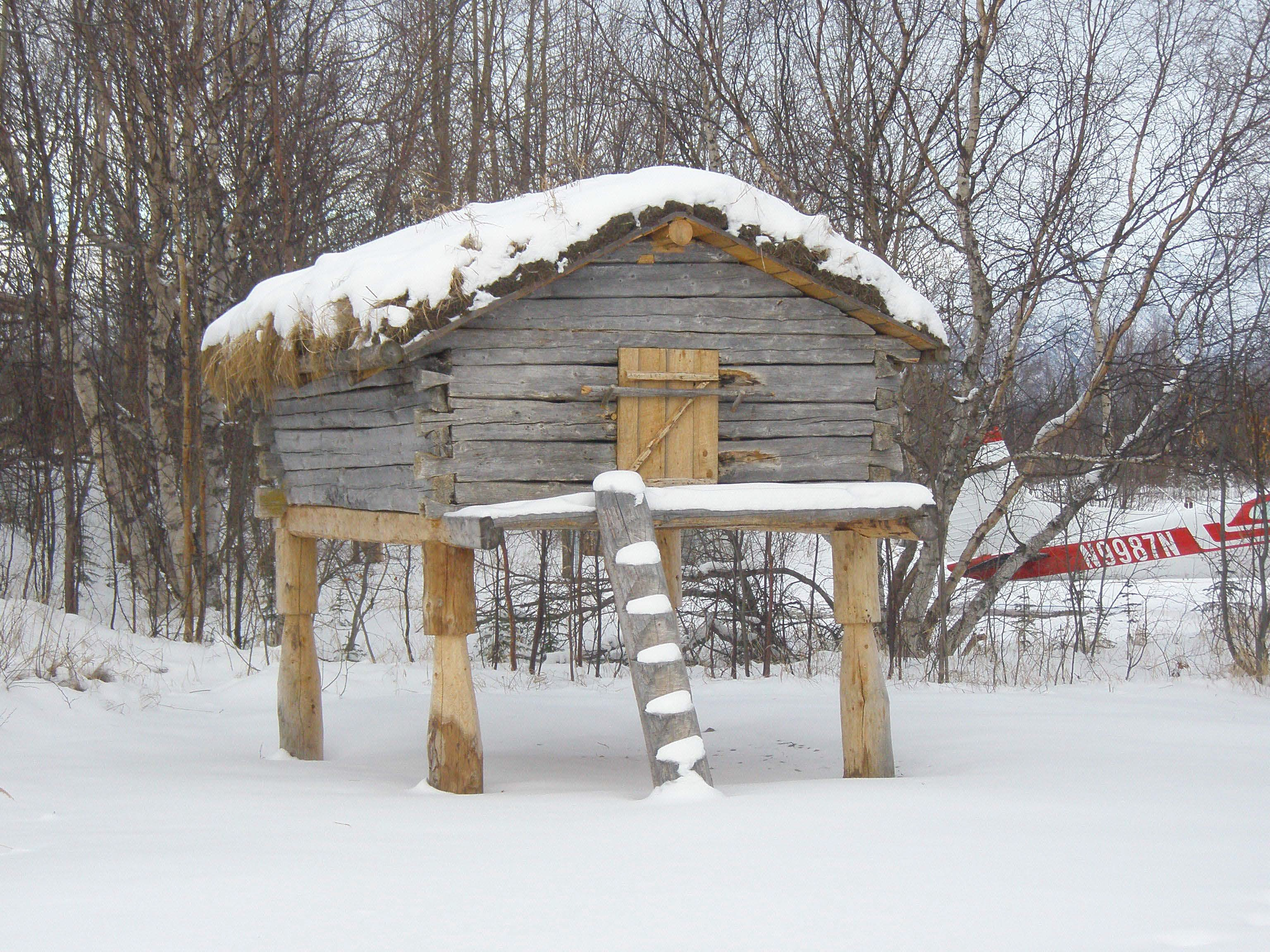 The historic Trefon Dena'ina Fish Cache (built 1920), currently located at 1 Park Place in Port Alsworth, Alaska, United States, is listed on the US National Register of Historic Places.